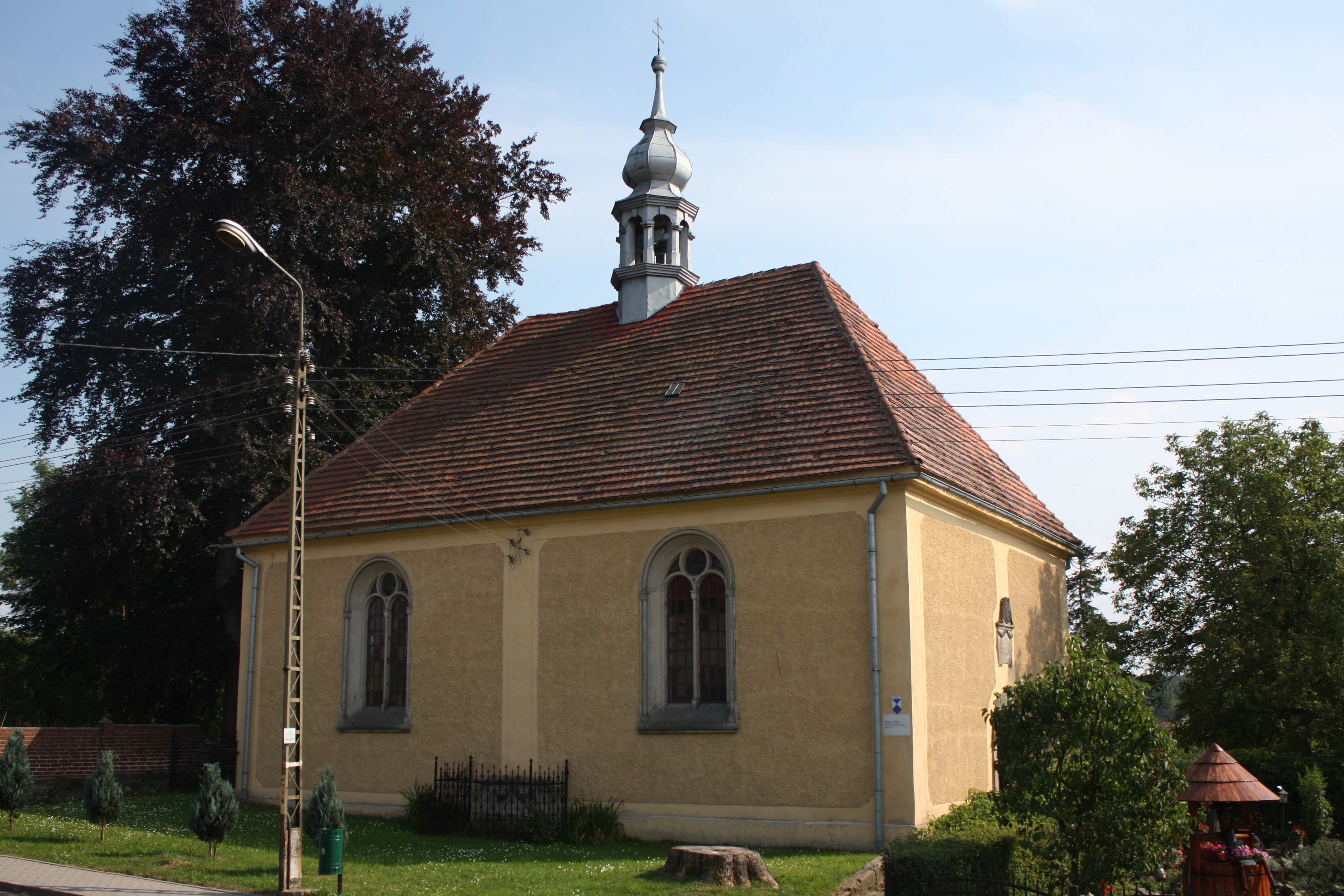 This photo of Lower Silesian Voivodeship was taken during Wikiexpedition 2013 set up by Wikimedia Polska Association. You can see all photographs in category Wikiekspedycja 2013. English | Polski | +/−